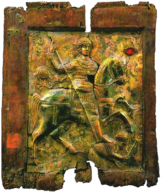 Equestrian St. George from Labechina, Georgia, 11th century. წმინდა გიორგი / XI ს.